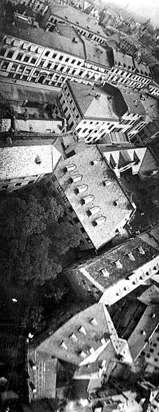 Bavarian Pigeon Corps aerial image